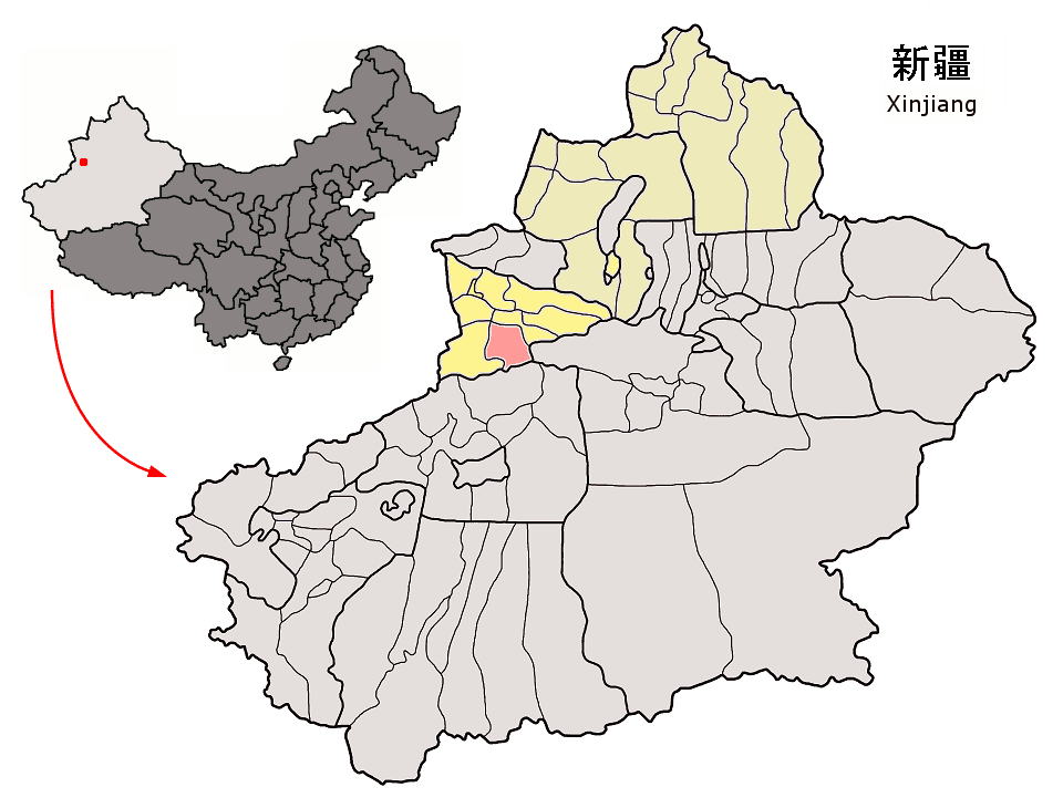 Location of Tekes County (pink) and Ili Prefecture (yellow: subdivisions under direct administration of Ili Prefecture, ecru: subdivisions under administration of Tacheng and Altay Prefectures) within Xinjiang autonomous region of China Map drawn in september 2007 using various sources, mainly : Xinjiang Uygur autonomous region administrative regions GIS data: 1:1M, County level, 1990 Xinjiang Counties map from